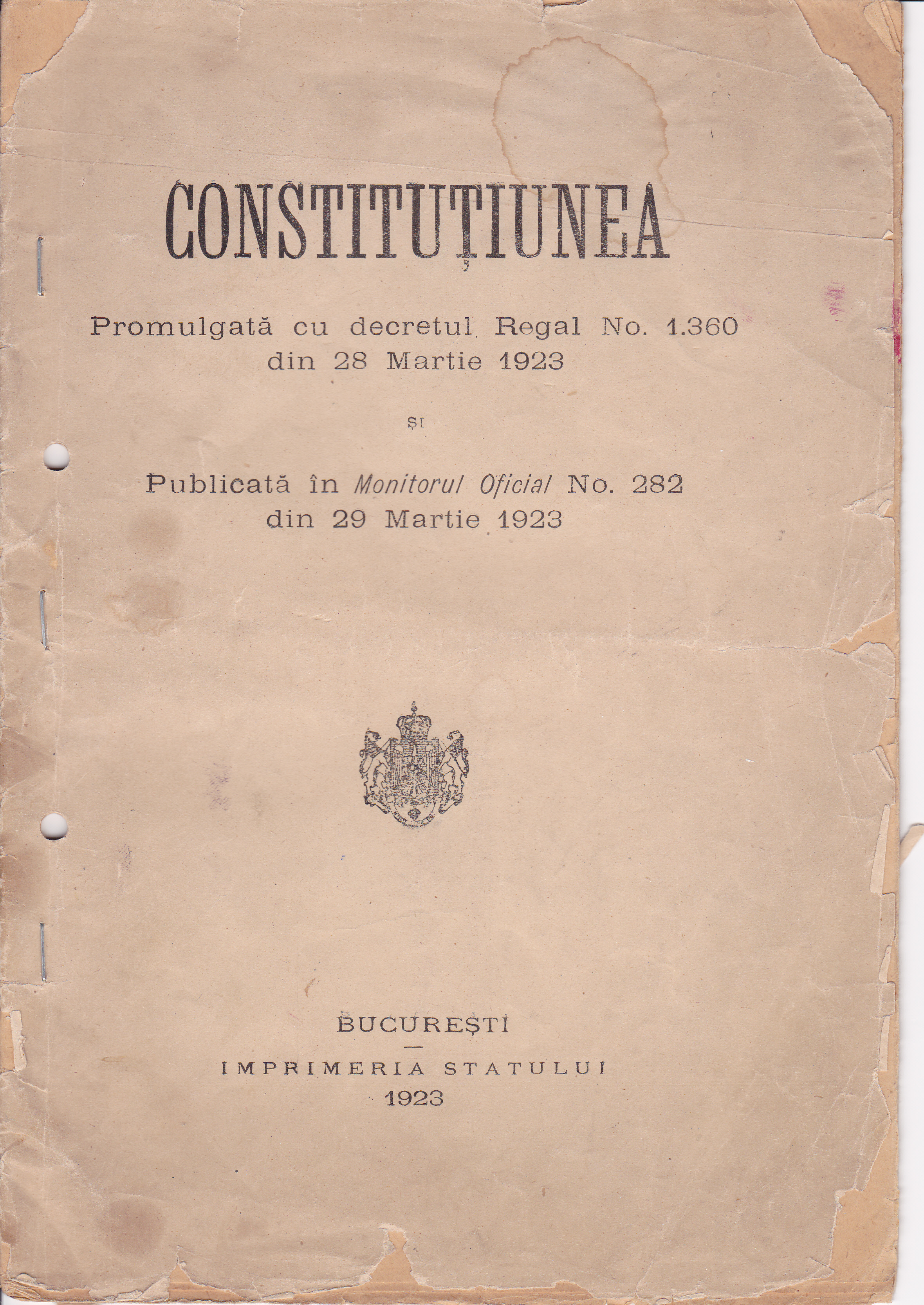 Page 1 of 1923 Romanian Constitution